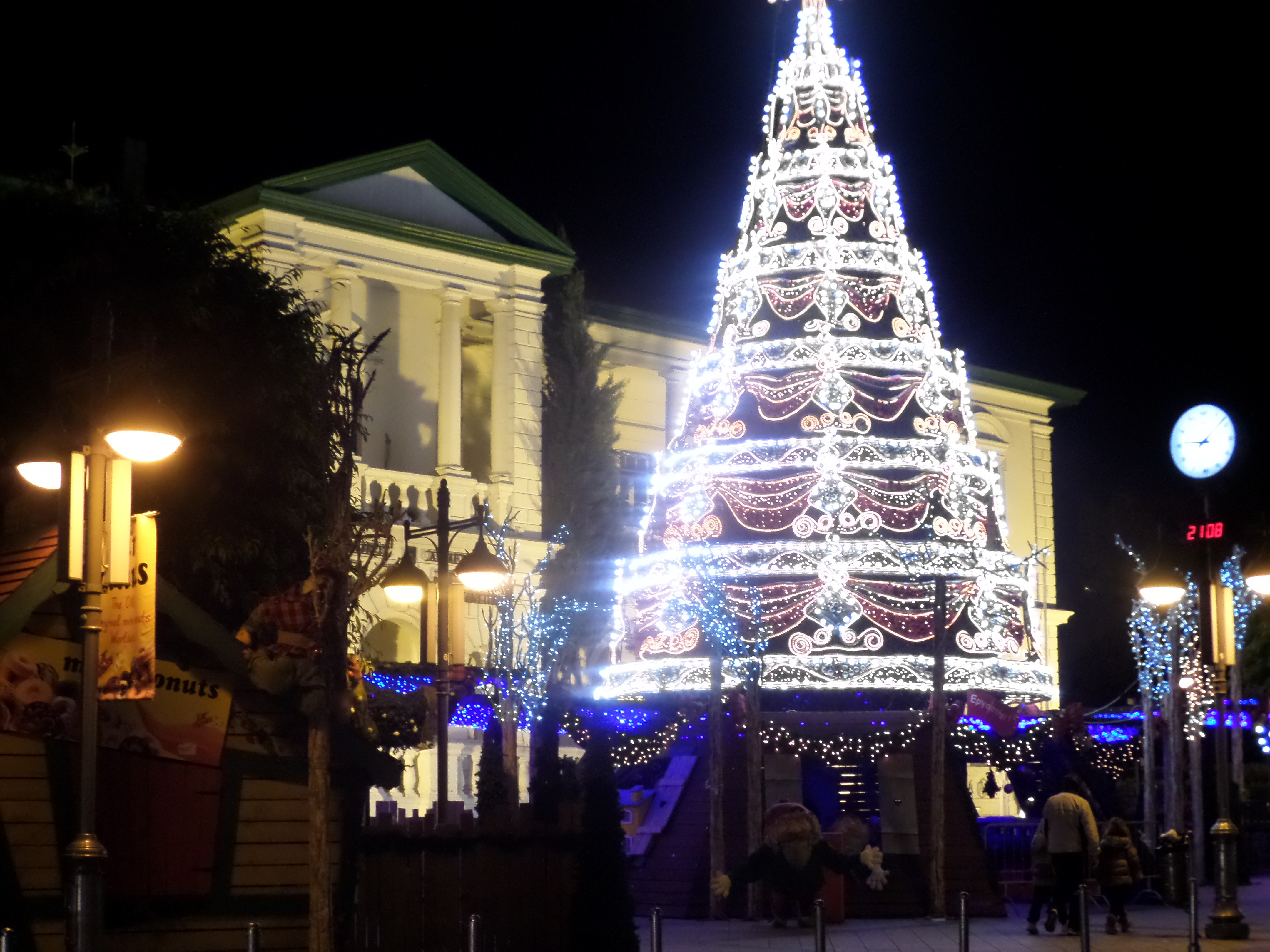 Limassol District Administration at Christmas